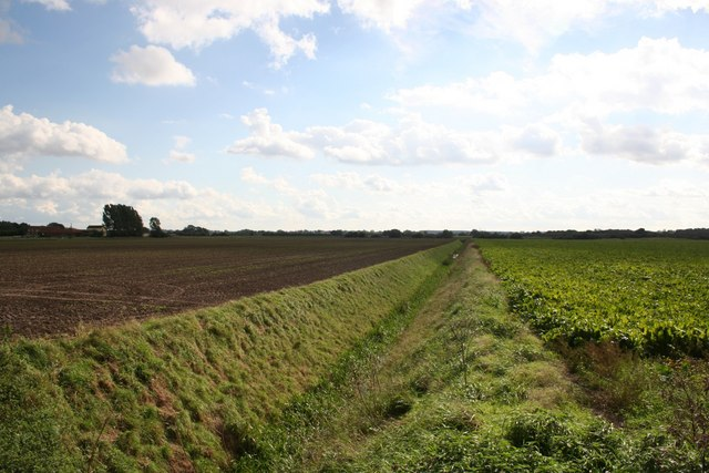 West Common Drain. Drain between West Common South Drain and the River Eau on Messingham Fen.